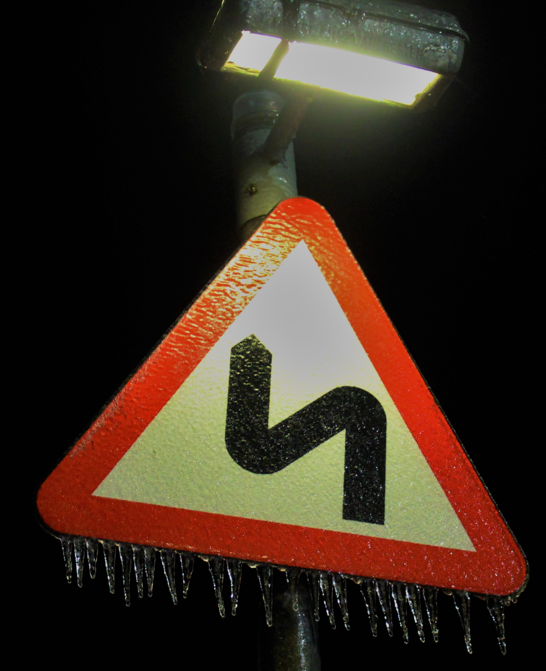 Ice accretion on a road sign in Sheffield, England following heavy freezing rain from Storm Deirdre on 15 December 2018. Freezing rain is rare in the United Kingdom; as Deirdre was moving northwards over the country, the storm collided with colder air moving down from Scandinavia, causing a huge ice storm which brought record levels of freezing rain across northern England and Scotland.